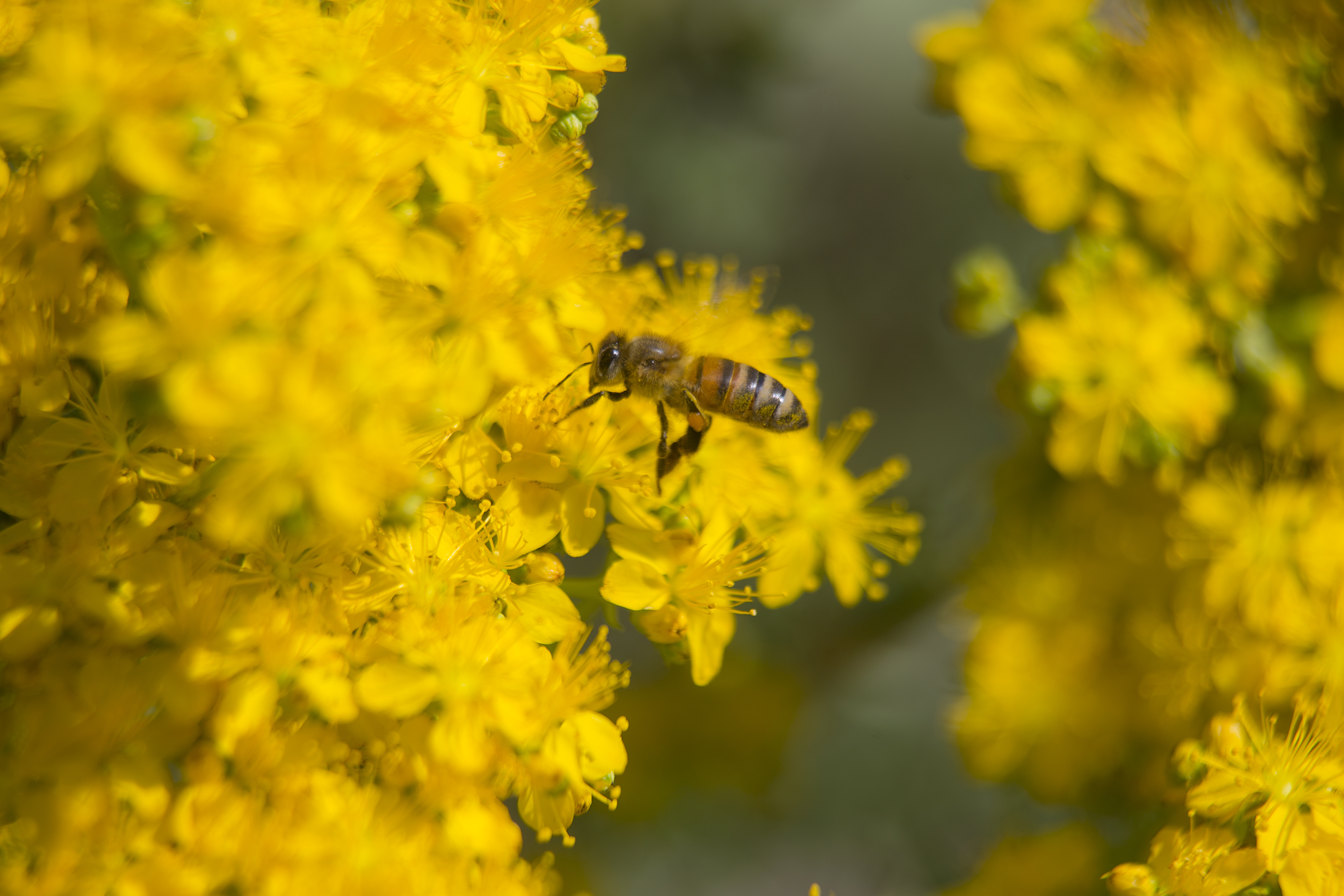 Medicinal Plants. Kahfar Padna village in Iran. Isfahan city